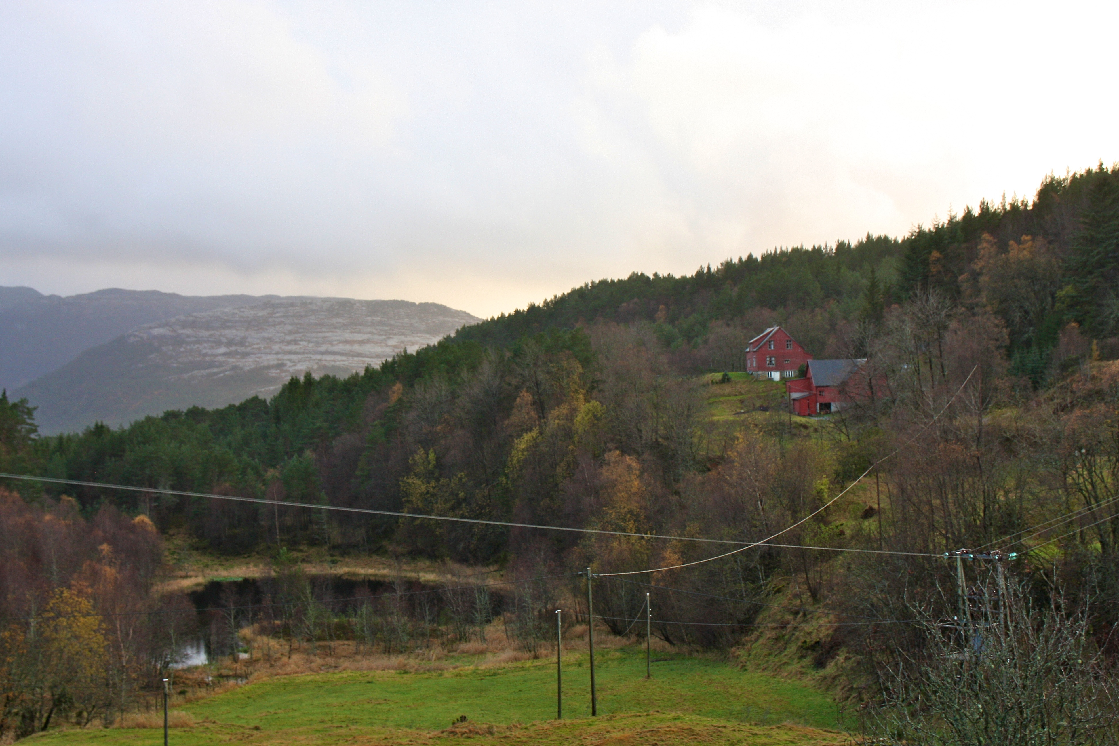 Vatne (Gulen) in Gulen municipality, Norway.